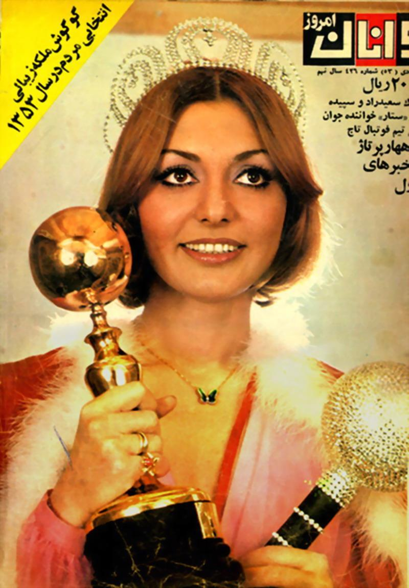 This photo was printed on the cover of "Javanan" magazine on January of 1975, depicting famous Persian songstress, Googoosh with this note: "Googoosh, the beauty queen of the year, chosen by people".